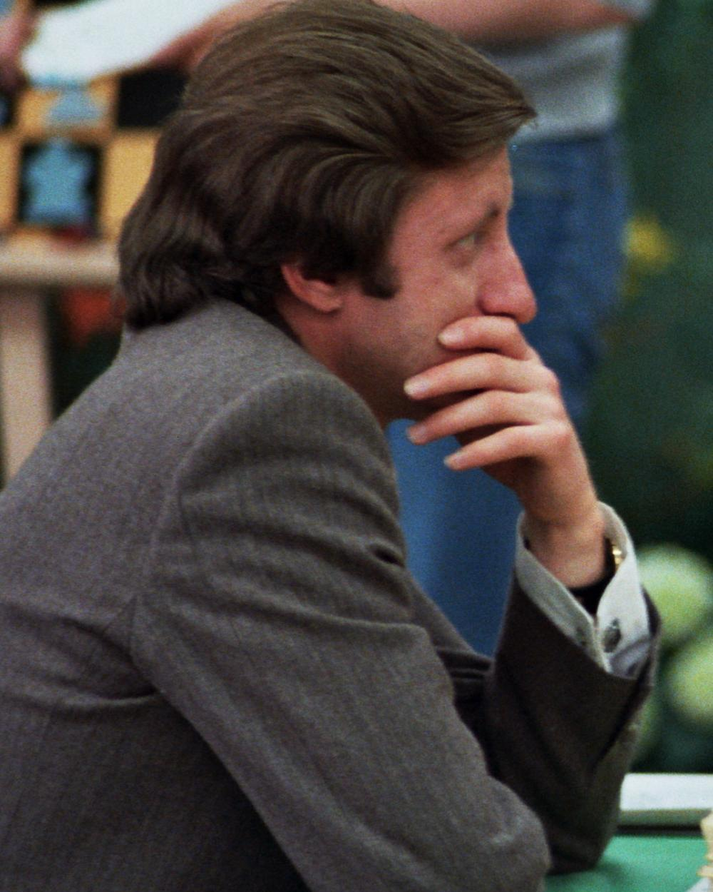 Oleg Romanishin, Dortmunder Schachtage 1982, Photographer Gerhard Hund.